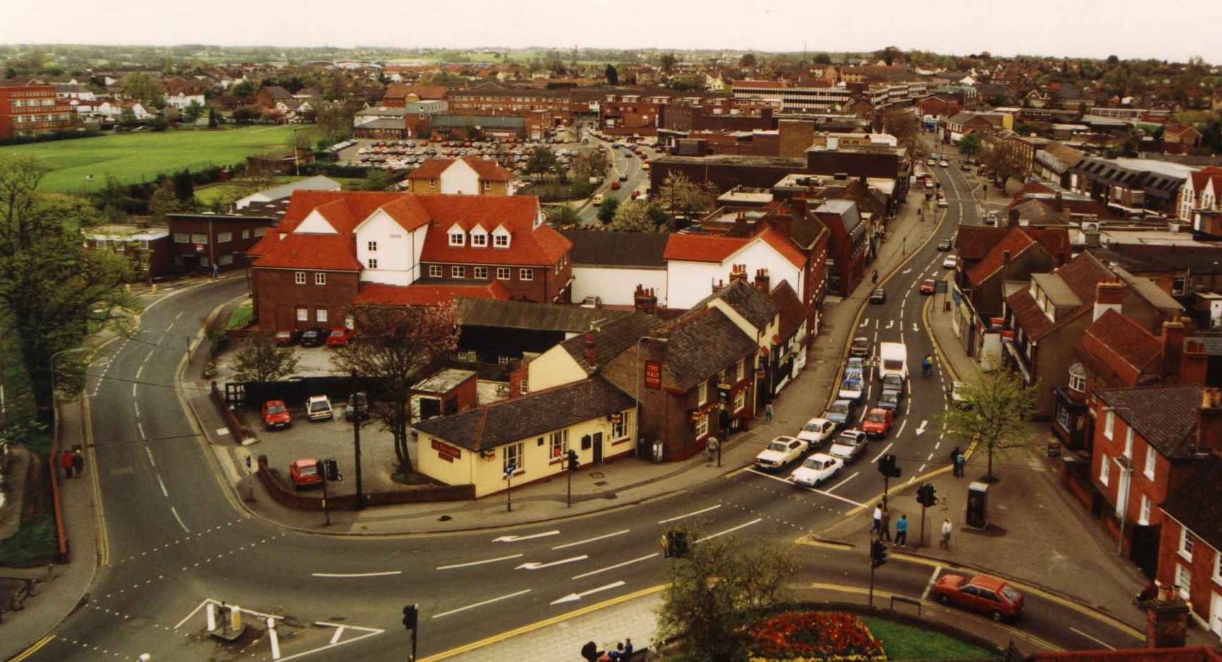 Photograph of Rayleigh High Street from the top of Rayleigh Church.